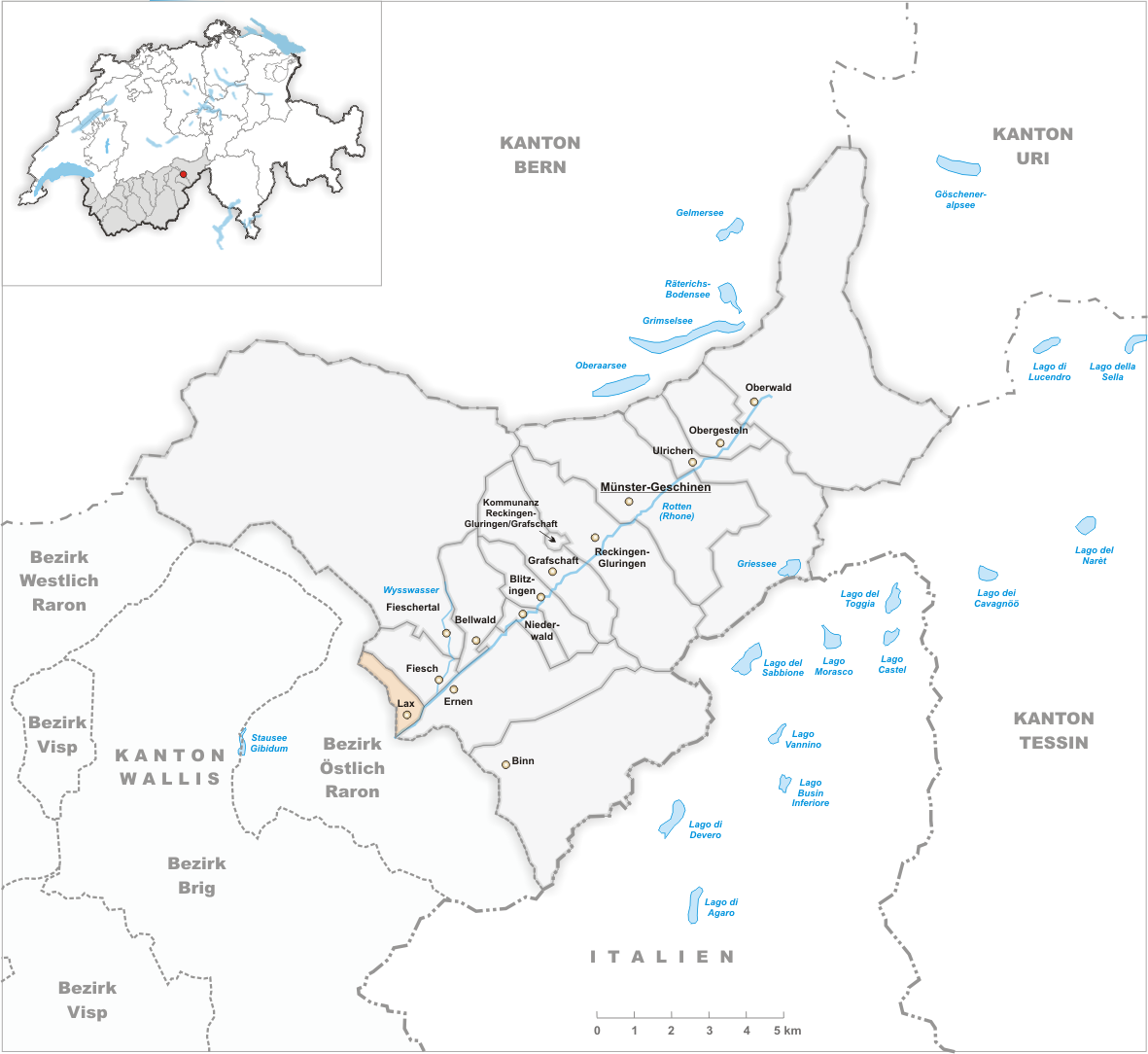 Municipality Lax